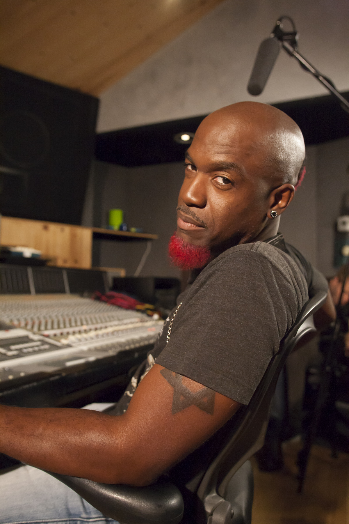 Audio Engineer Neal Pogue